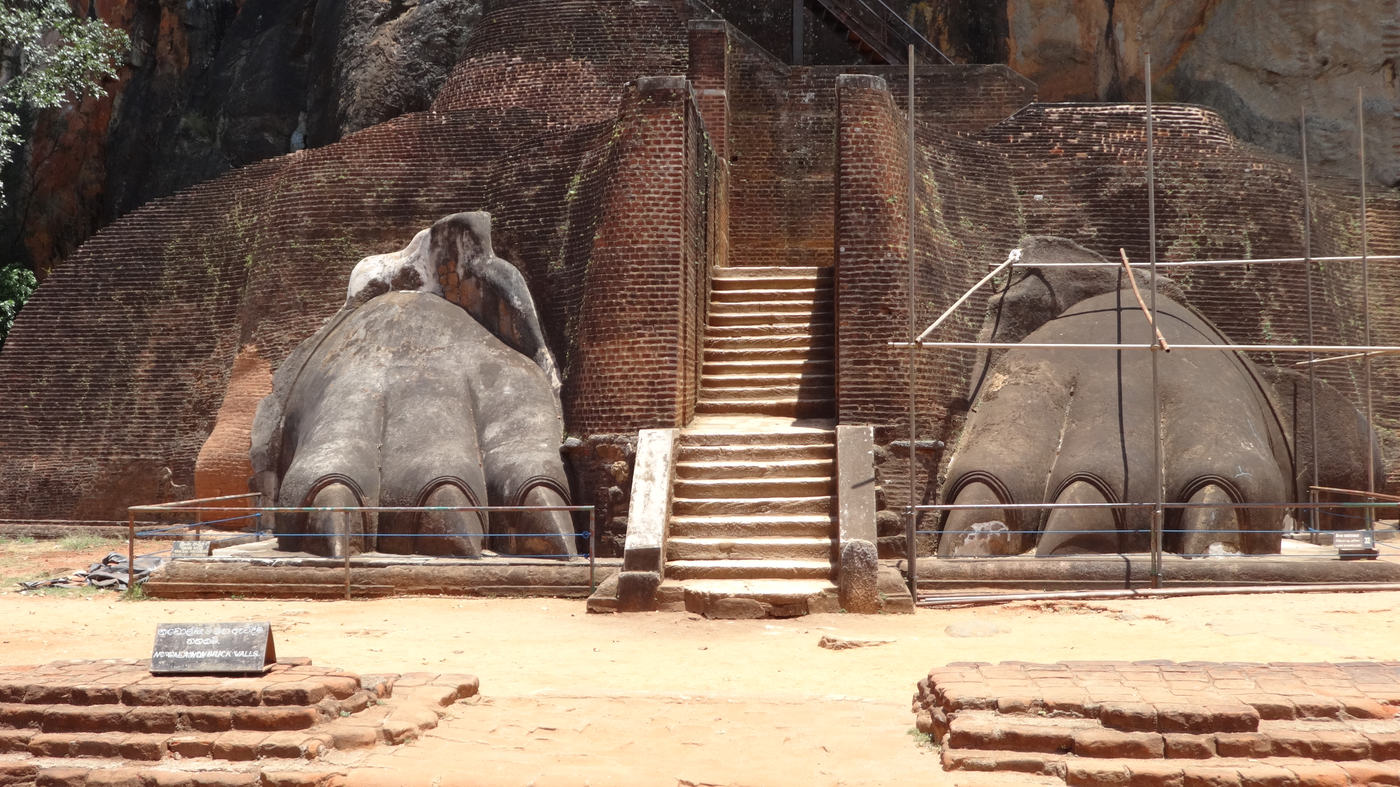 Sigiriya Liongate